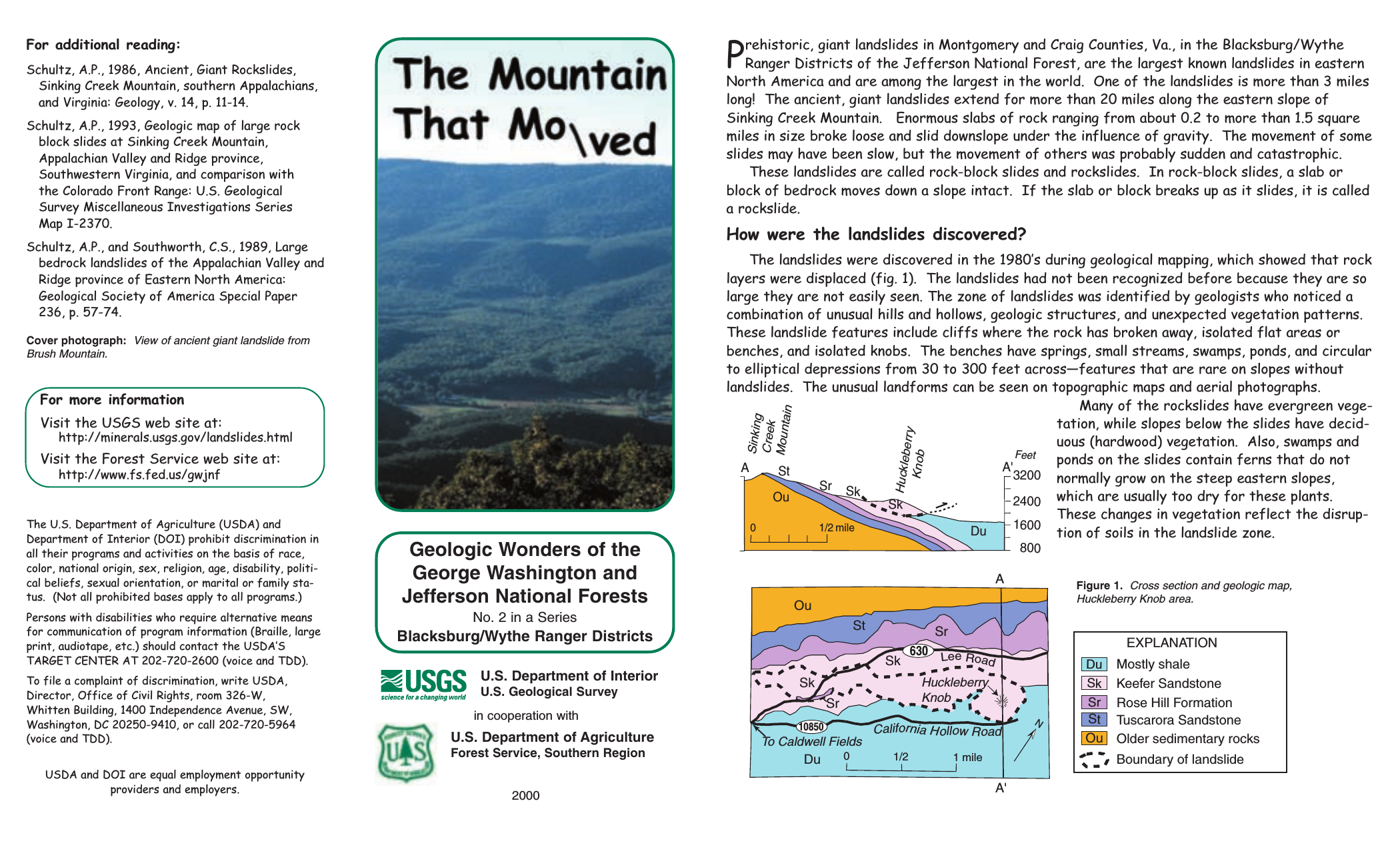 Government brochure describing geologic landslide on Sinking Creek Mountain, Jefferson National Forest, Virginia, page 1